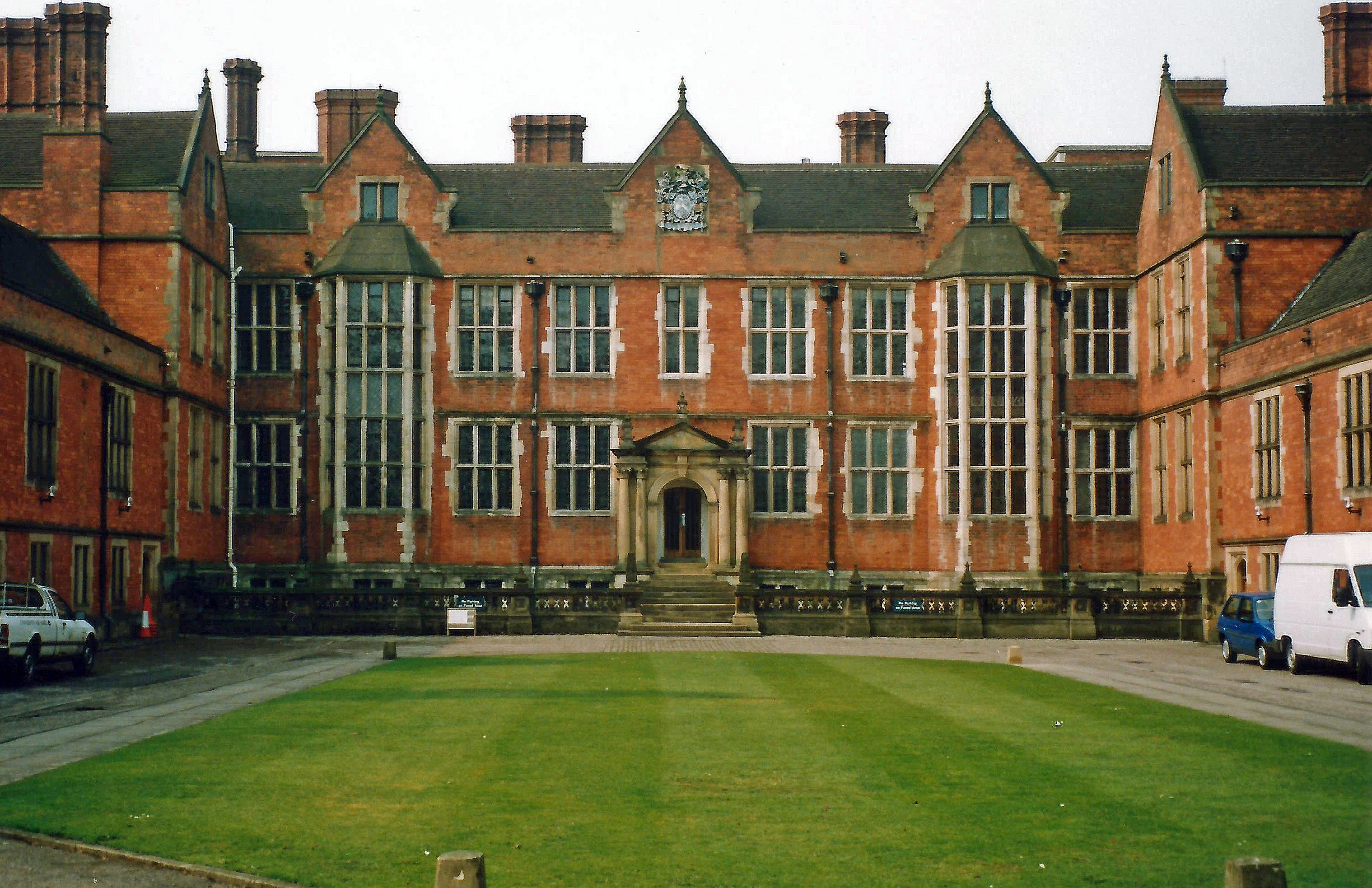 Frontage of Heslington Hall, York, the administrative centre of the University of York